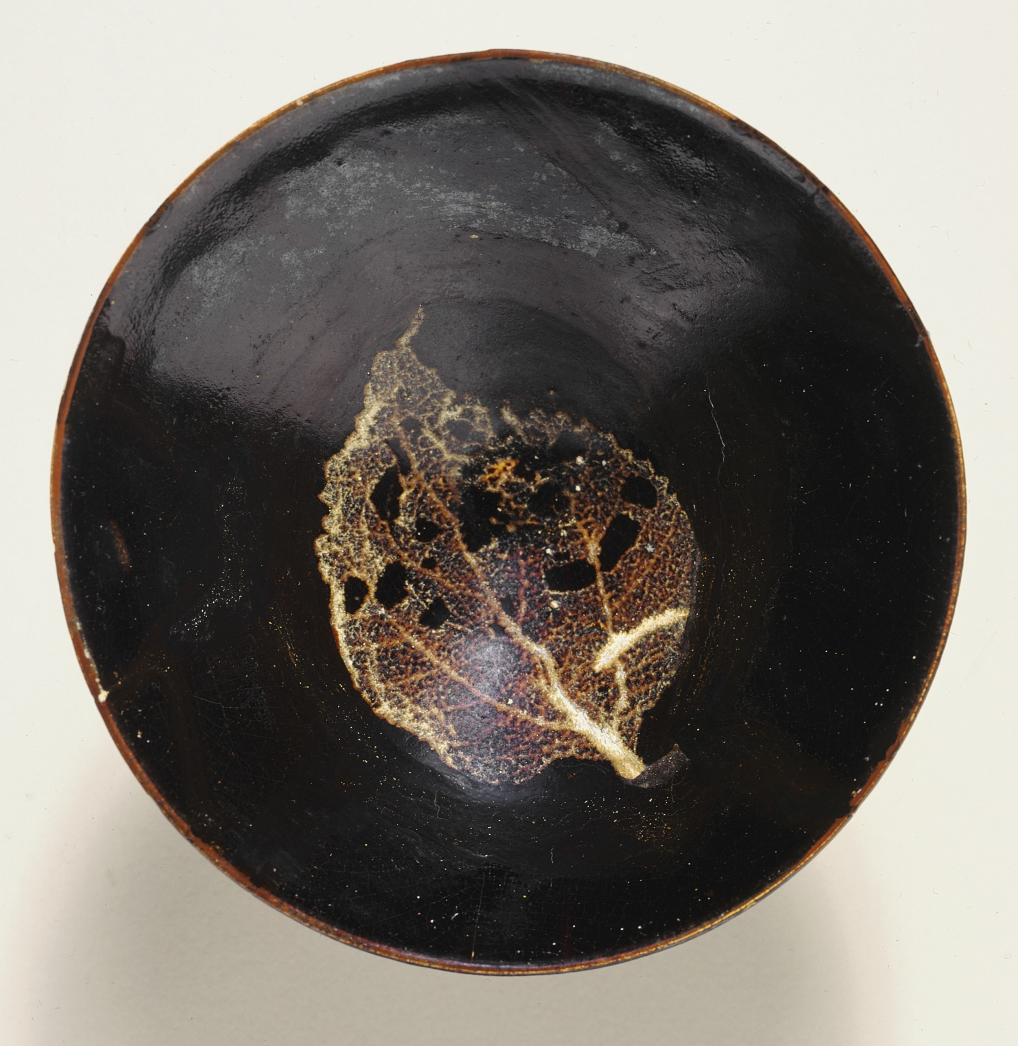 China, Jiangxi Province, Ji'an County, Late Southern Song dynasty, about 1200-1279 Furnishings; Serviceware Jizhou ware, wheel-thrown stoneware with natural leaf resist decoration and brown glaze Gift of Carl Holmes (58.49.5) Chinese Art